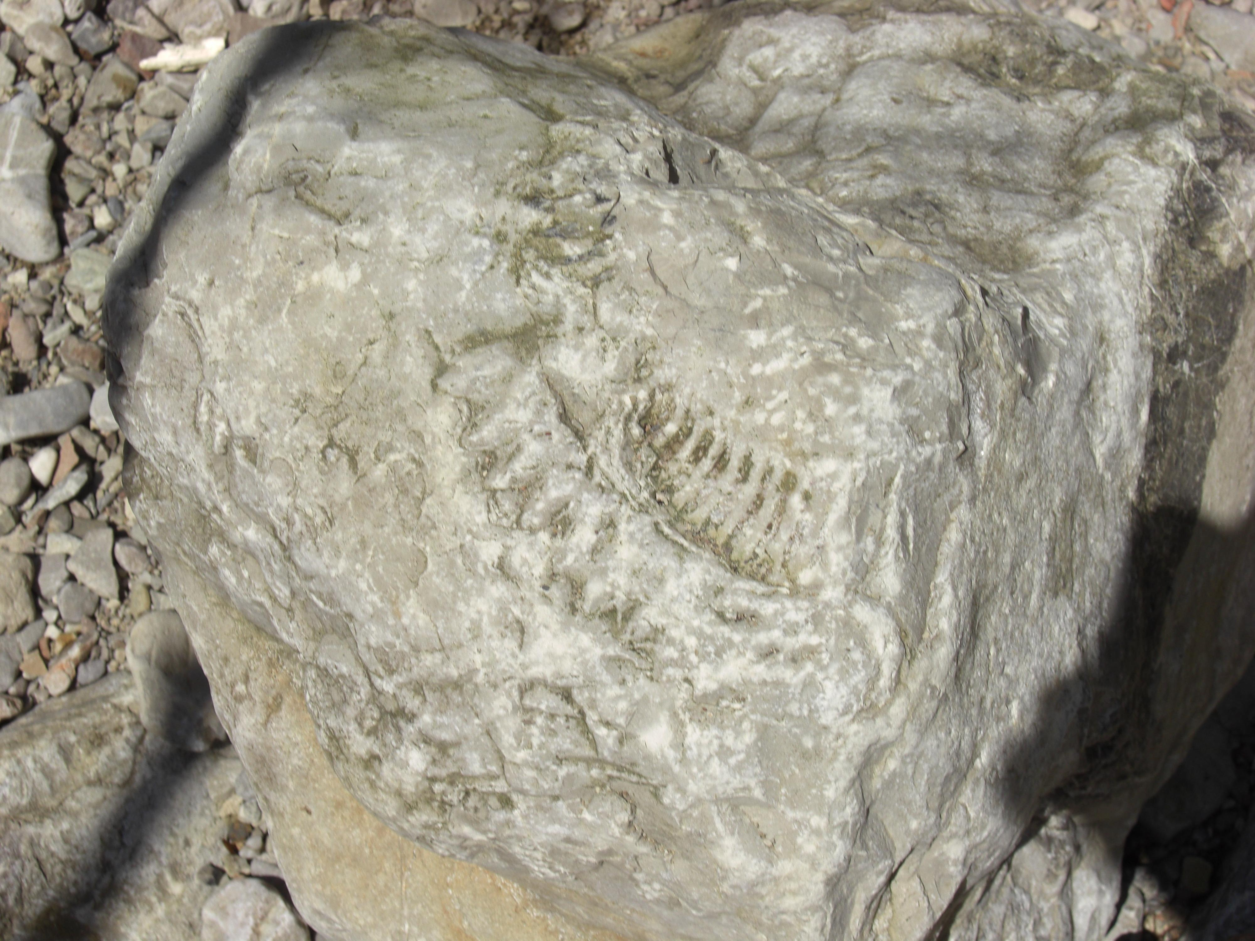 A fossil in the Glasenbachklamm